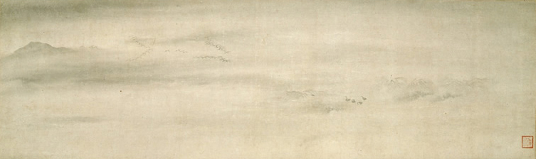 Geese alighting on a sandbank attributed to Muqi, Idemitsu Museum of Arts, Tokyo